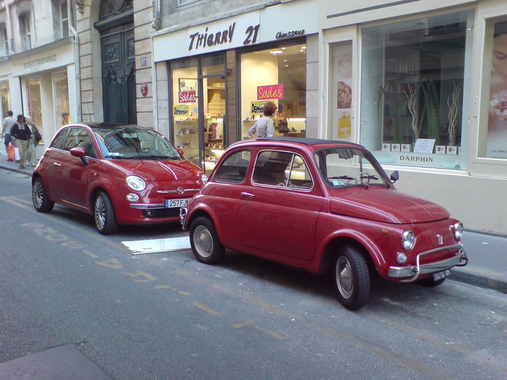 Fiat 500 old vs new